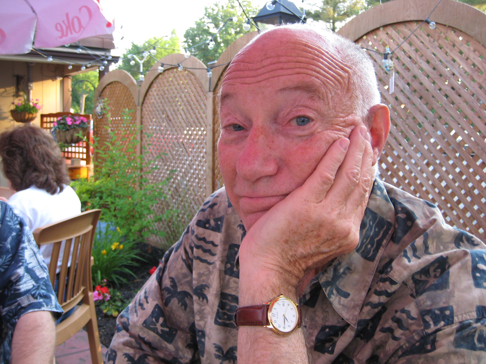 Our dear friend and colleague, baritone Max van Egmond.